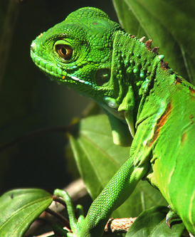 A juvenile Green Iguana in the wild.